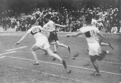 During the final of the men's 4x100 metre relay at the 1912 Summer Olympics. Team Germany passing the baton.